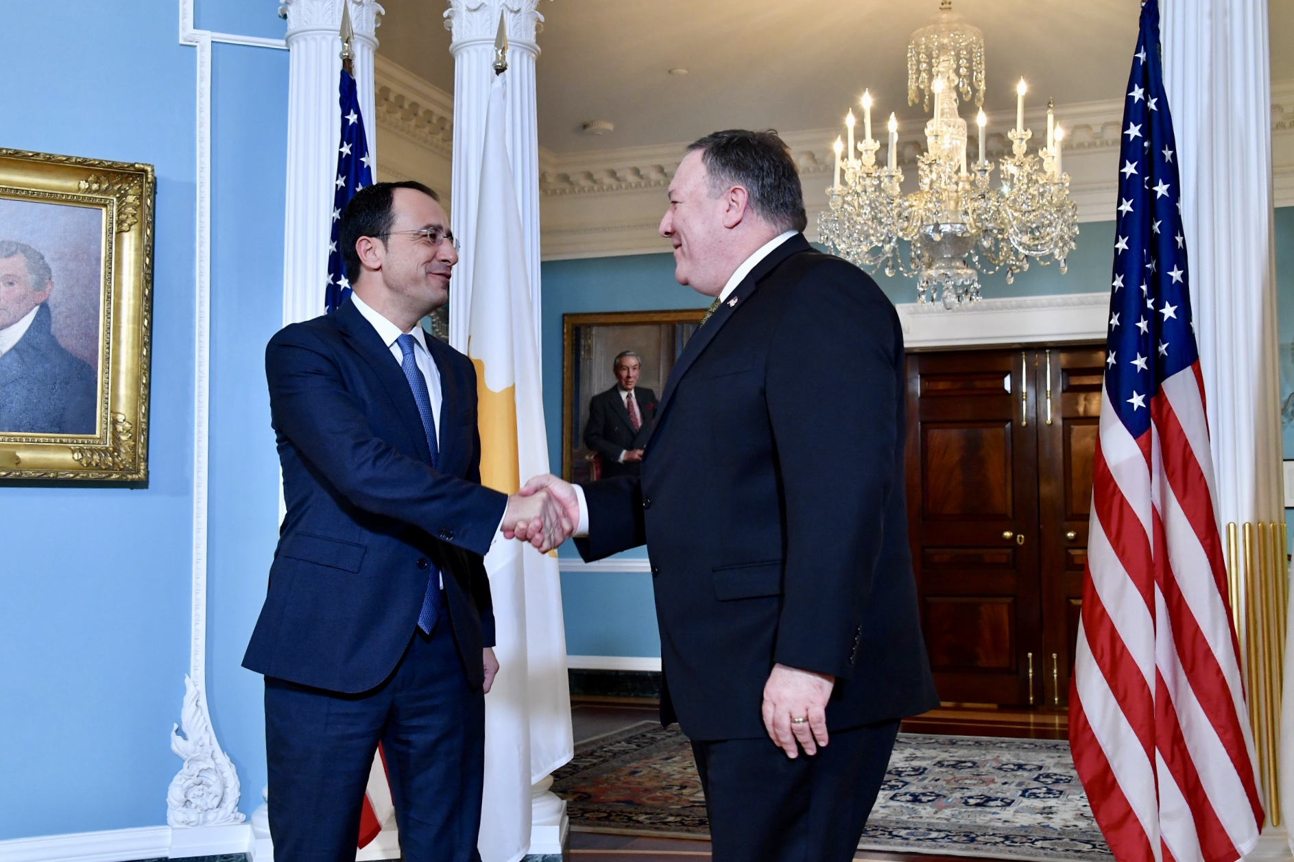 Secretary of State Michael R. Pompeo greets with Cypriot Foreign Minister Nikos Christodoulides, at the Department of State, November 6, 2018. [State Department photo/ Public Domain]